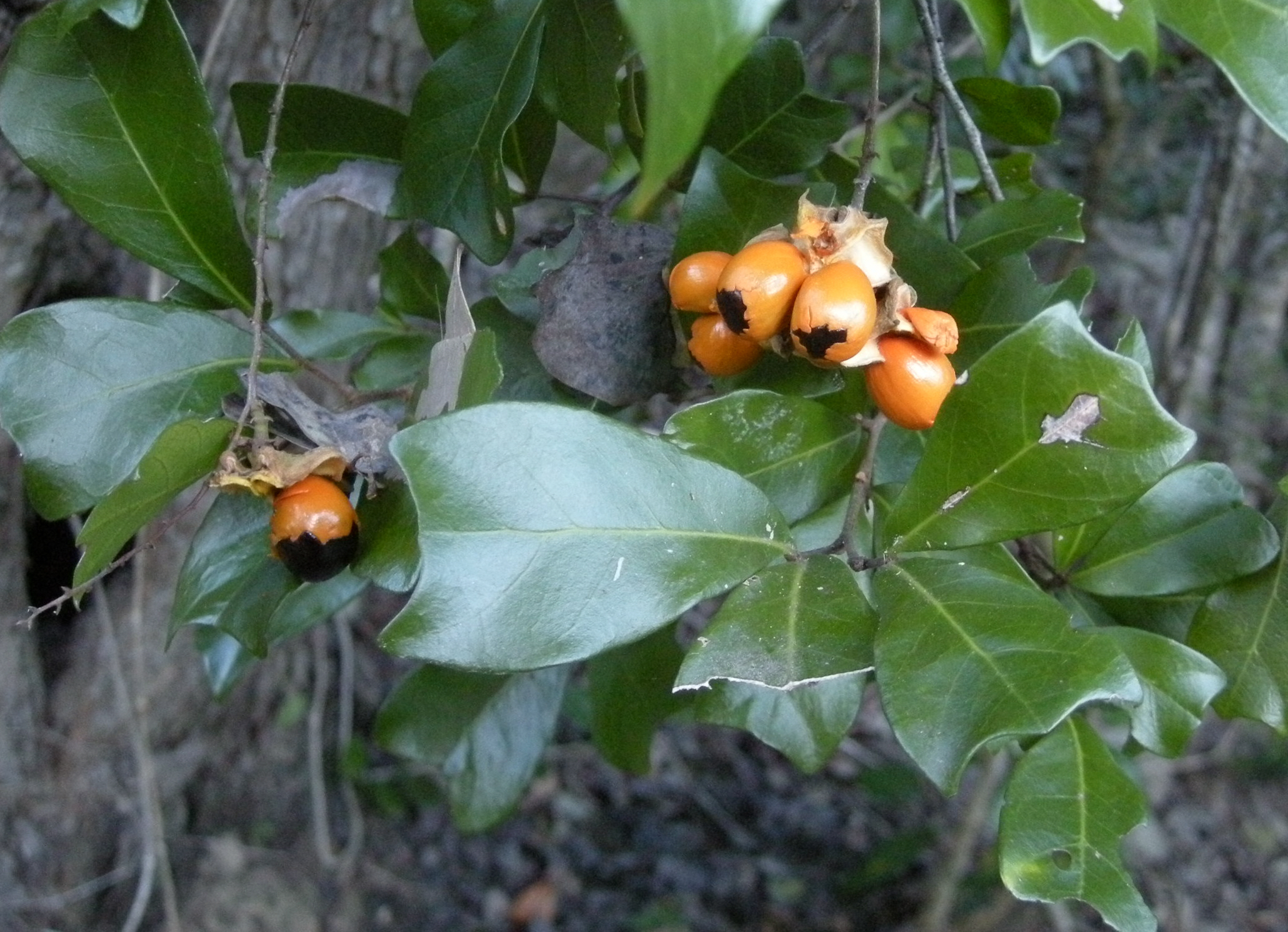 Cupaniopsis wadsworthii foliage and ripe fruit, Mount Archer National Park Rockhampton, Queensland.